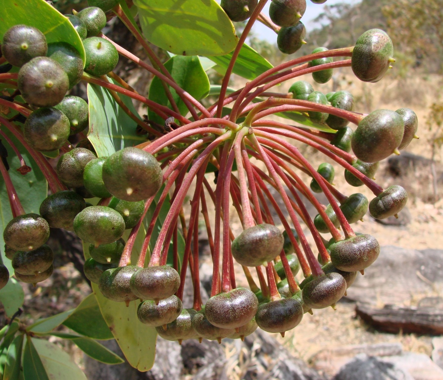 Schwartzia adamantium, Parque Estadual Serra dos Pirineus, Brasil